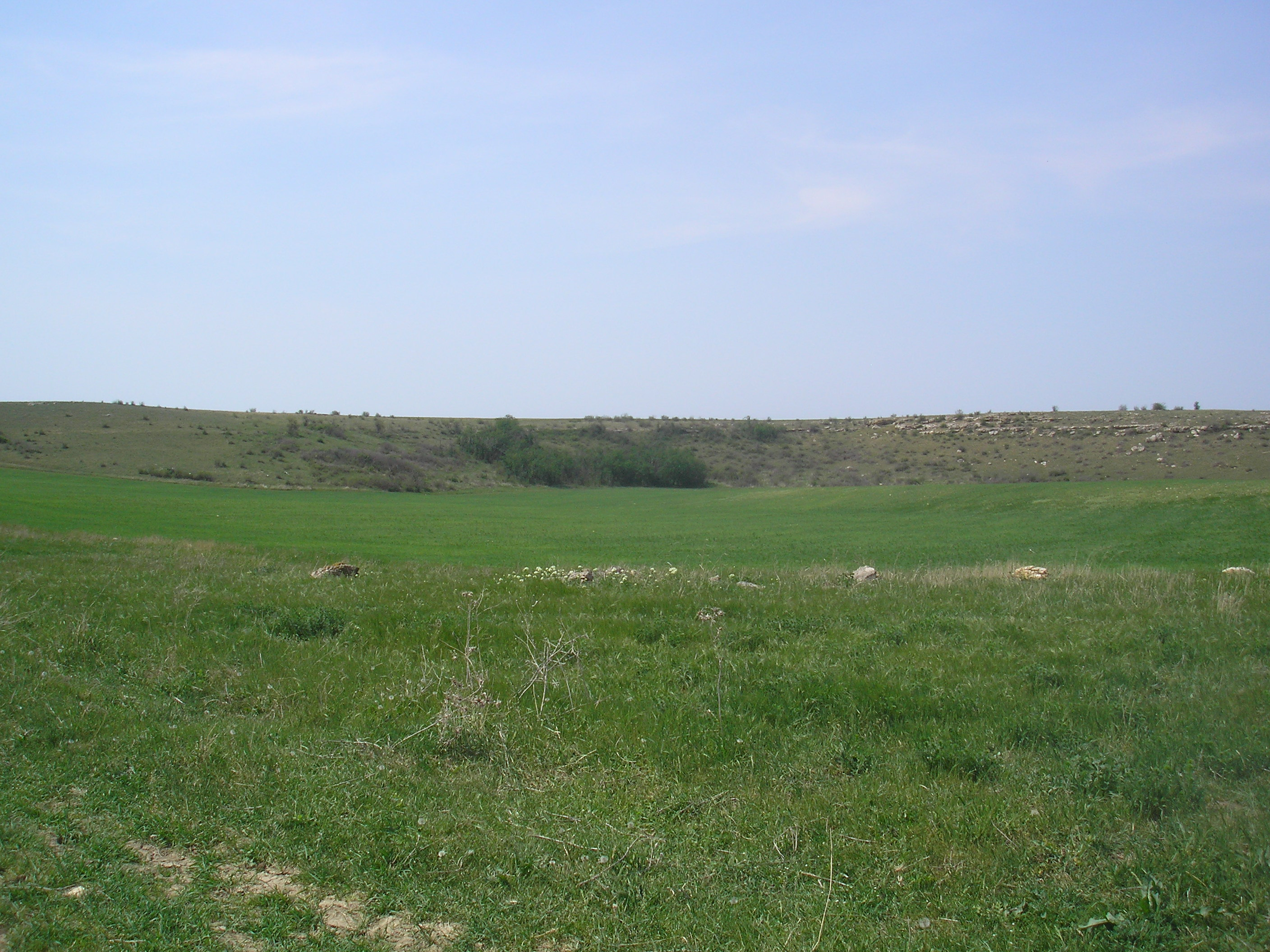 Location of the disappeared village of Evel-Sheyh, Bakhchisaray district, Crimea